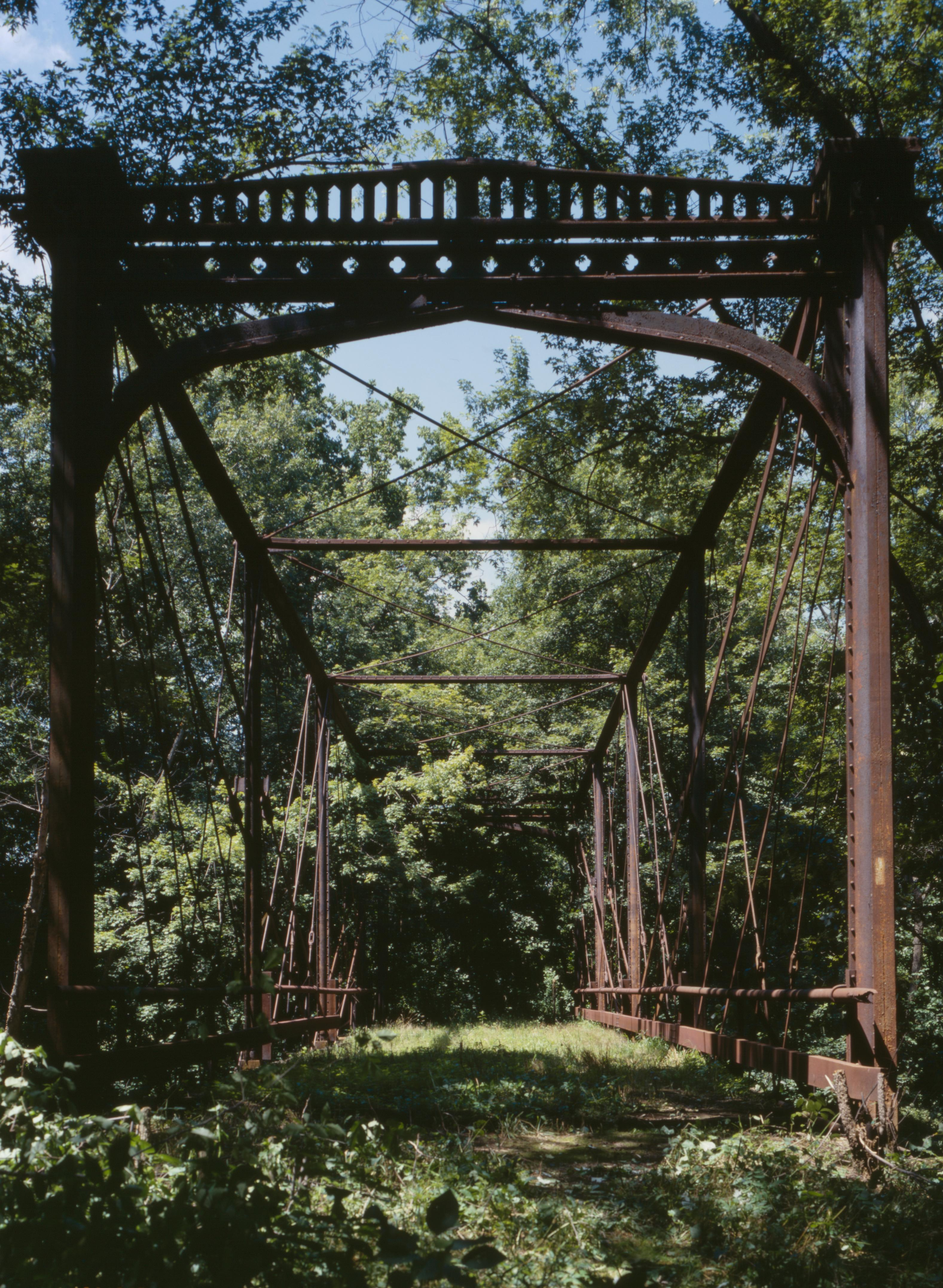 Southern end of the Zoarville Bridge, which spans Conotton Creek southeast of Zoarville in Fairfield Township, Tuscarawas County, Ohio, United States. Built in 1868 and listed on the National Register of Historic Places, it is the only Fink through truss bridge in the United States.